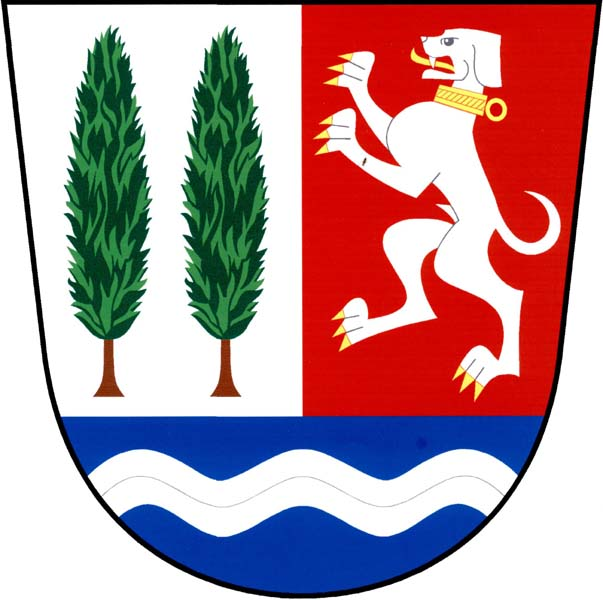 Coat of amrs of Dobšice , District Nymburk, Czech Republic